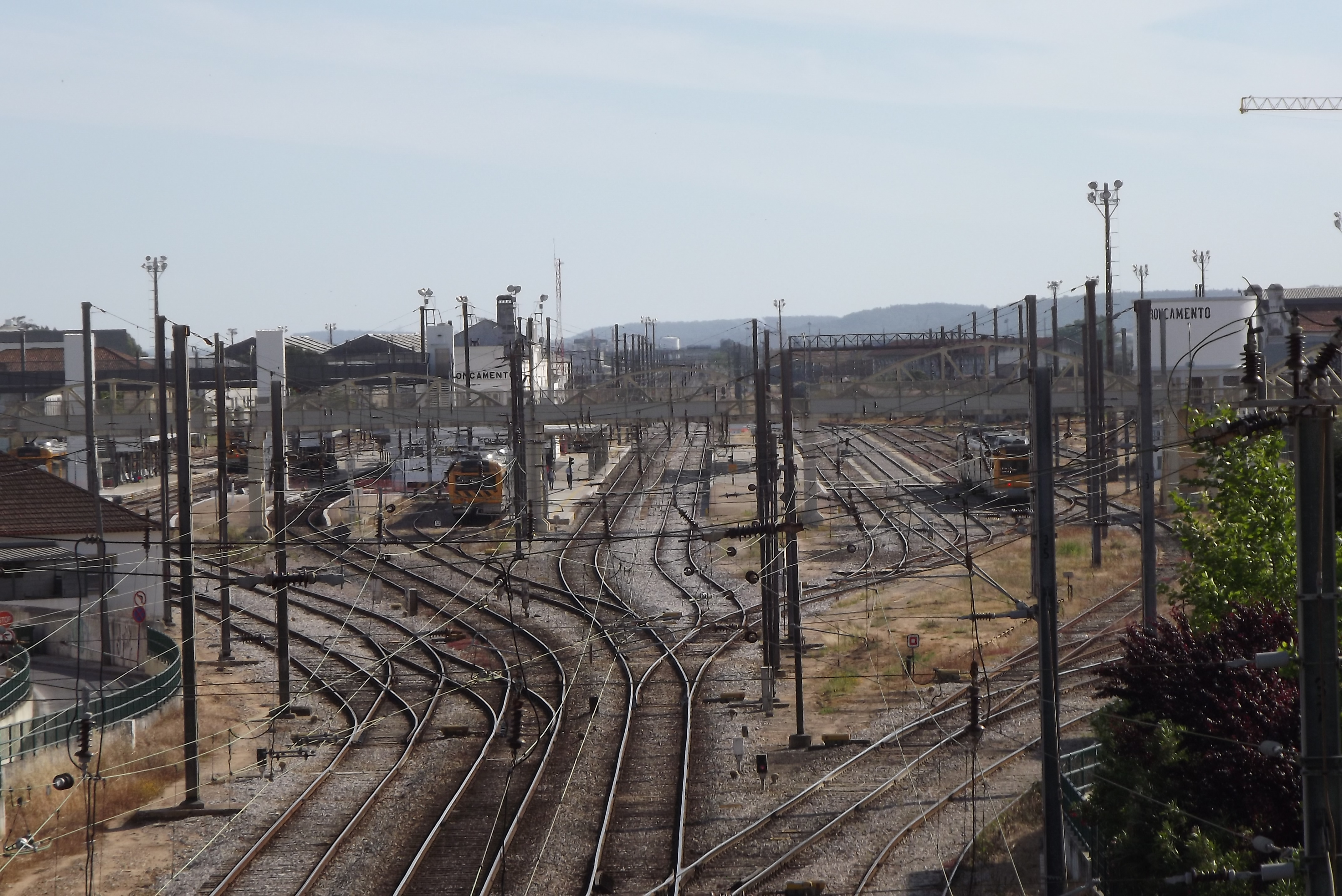 Entroncamento Station, seen from the Viaduct Eugénio Dias Poitout.